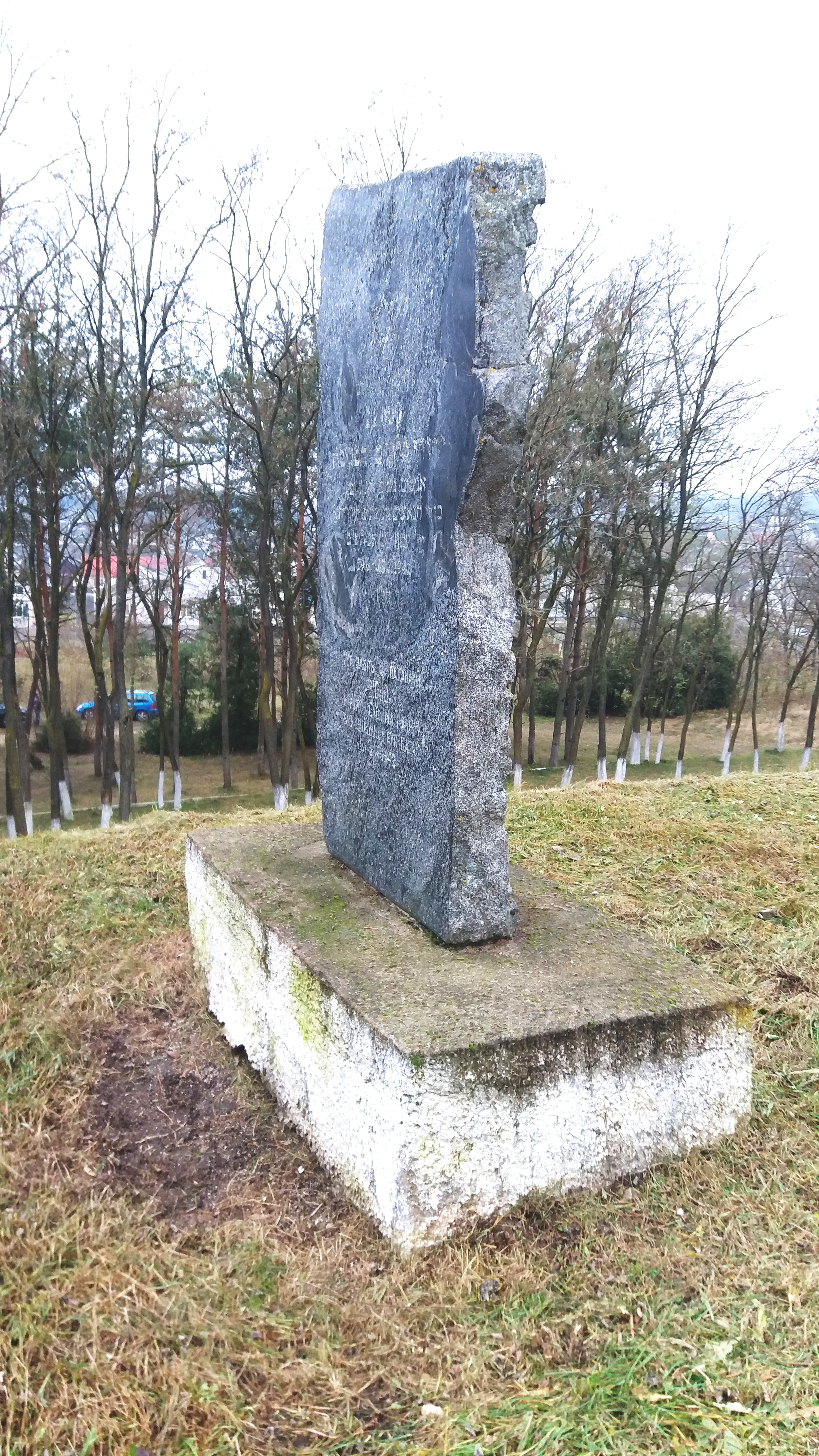 Memorial at Petralevich Hill on execution place of Jews from Slonim ghetto who were murdered in June - July 1942